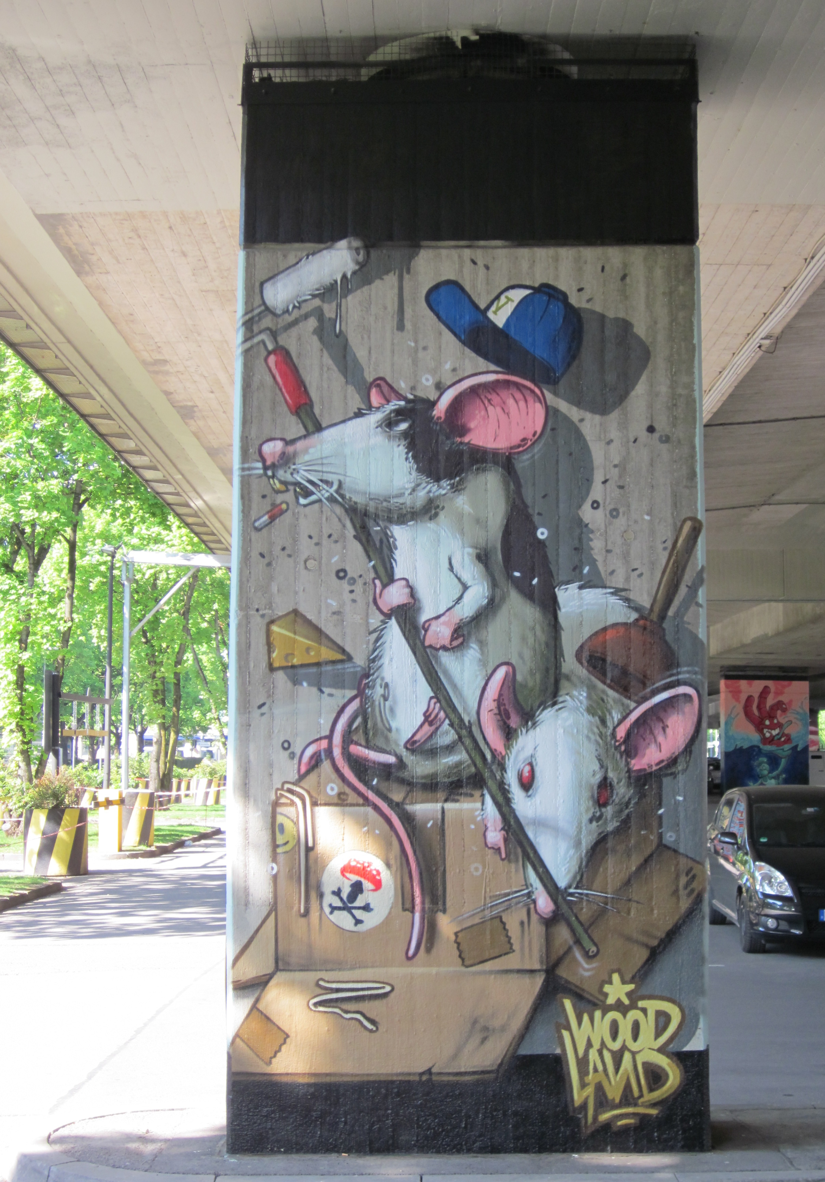 A graffito at the "Donnersbergerbrücke" in Munich signed by "Mr. Woodland".